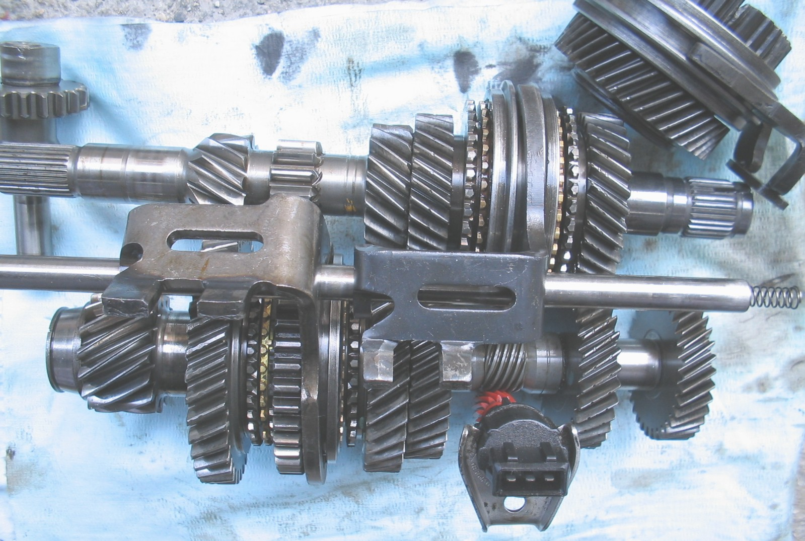 H 5-speed gearbox + reverse, the 1600 Volkswagen Golf 4th series, with the car speed sensor, but with a wheel / selector decoupled, and the third gear of the reverse unpaired